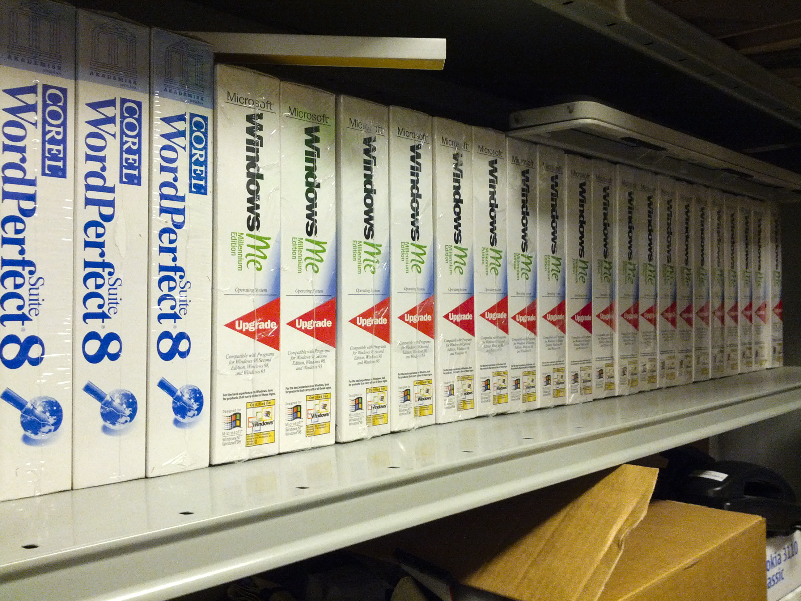 ME x20: 20 unopened copies of Windows ME (Year 2012 so they're kinda obsolete by now) [Also seen are 3 unopened boxes of Corel WordPerfect Suite 8]